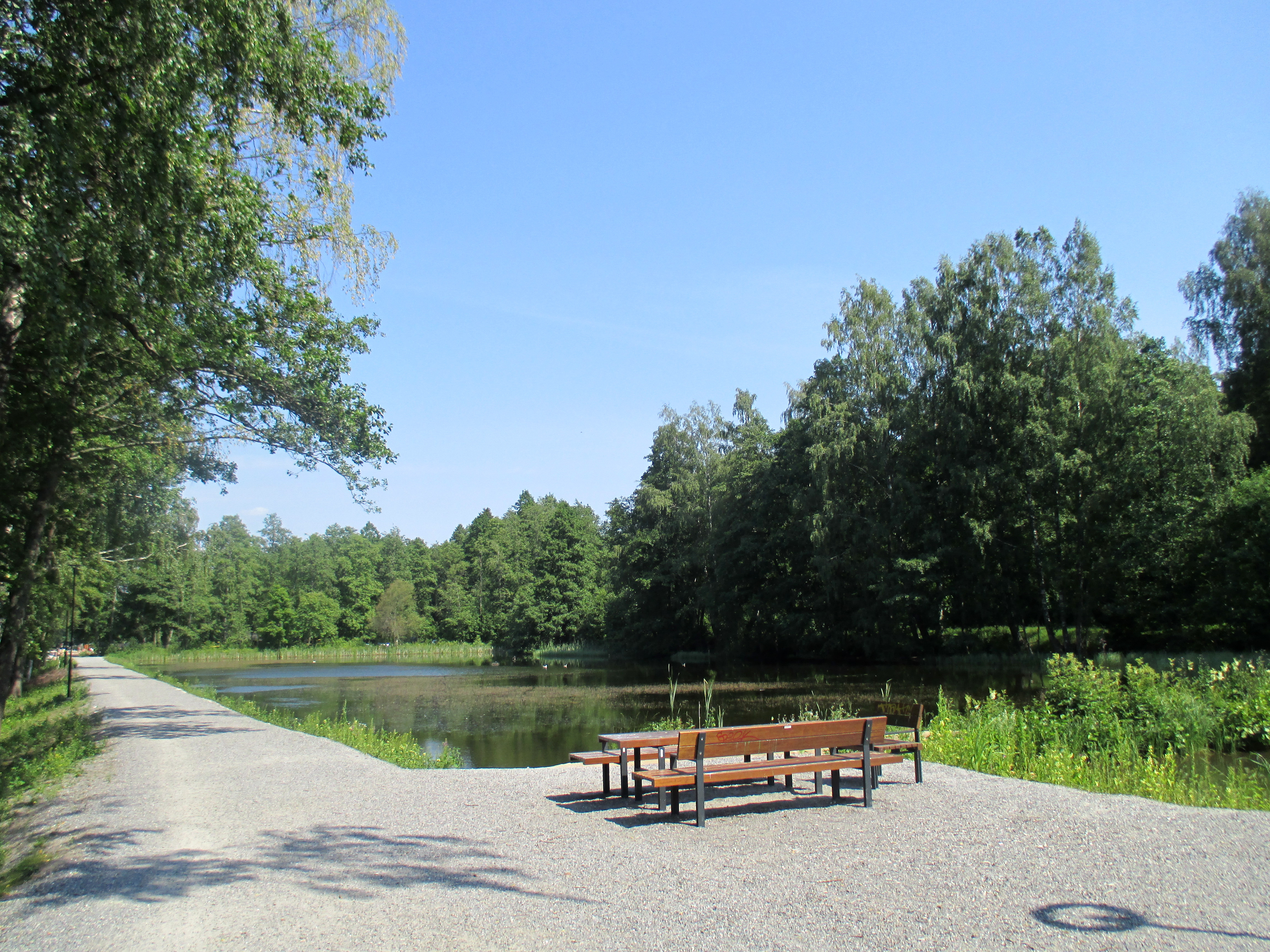 Porla fish farming facilities, Lohja, Finland.